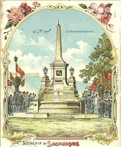 Inauguration of Hamidiye Şadırvan